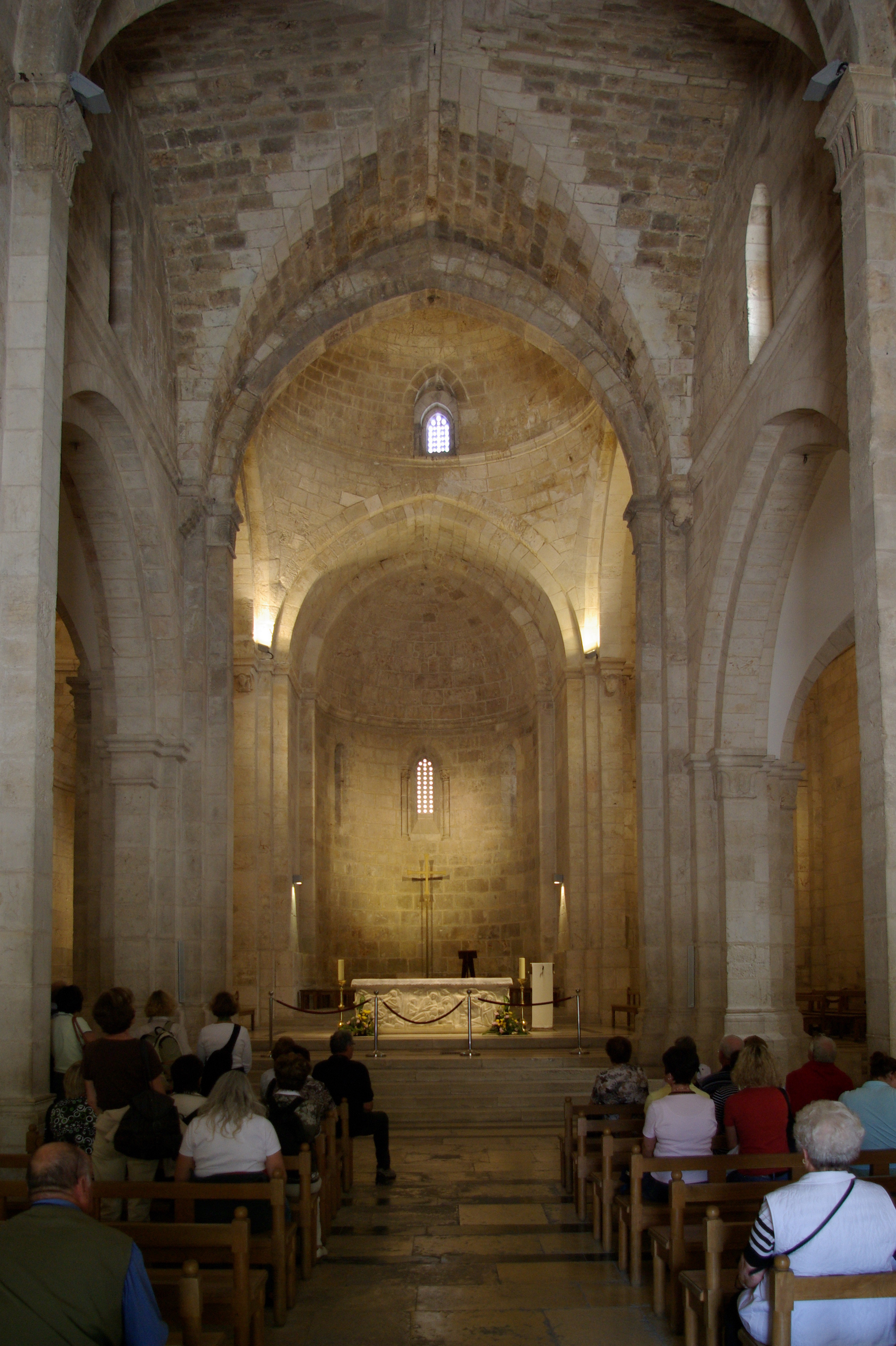 Jerusalem, St. Anna church.